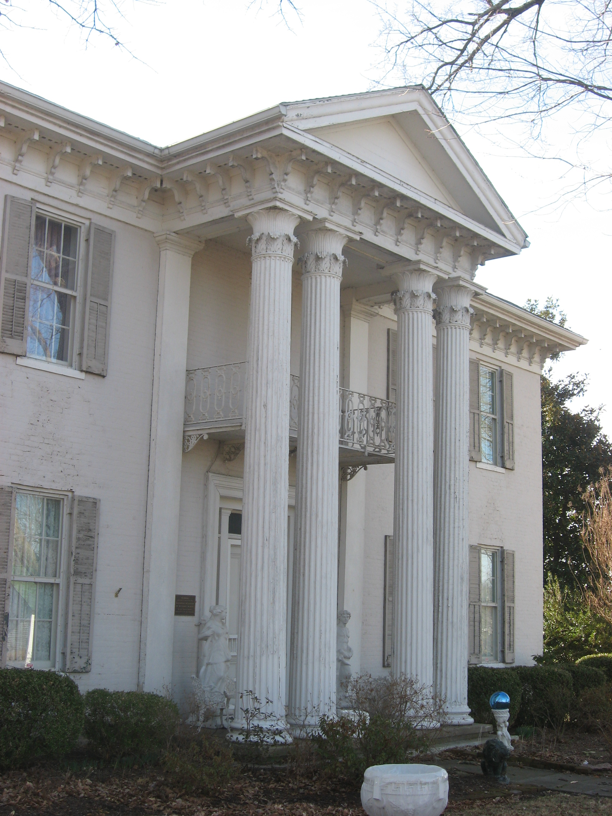 Portico of the L.B. Overby House, located at 317 S. Jefferson Street (Kentucky Routes 139/293) in Princeton, Kentucky, United States. Built in 1857, it is listed on the National Register of Historic Places.